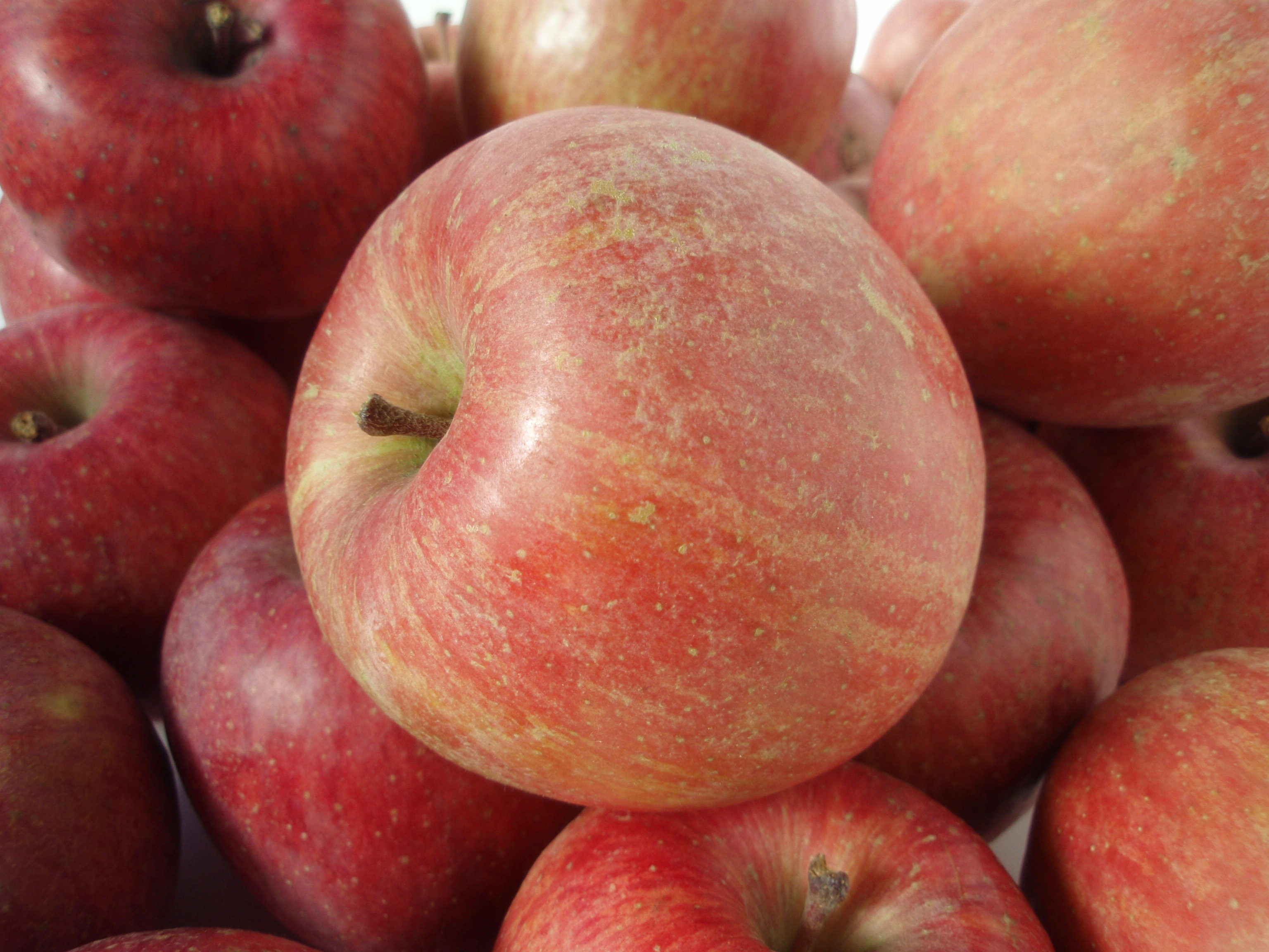 Fuji apple